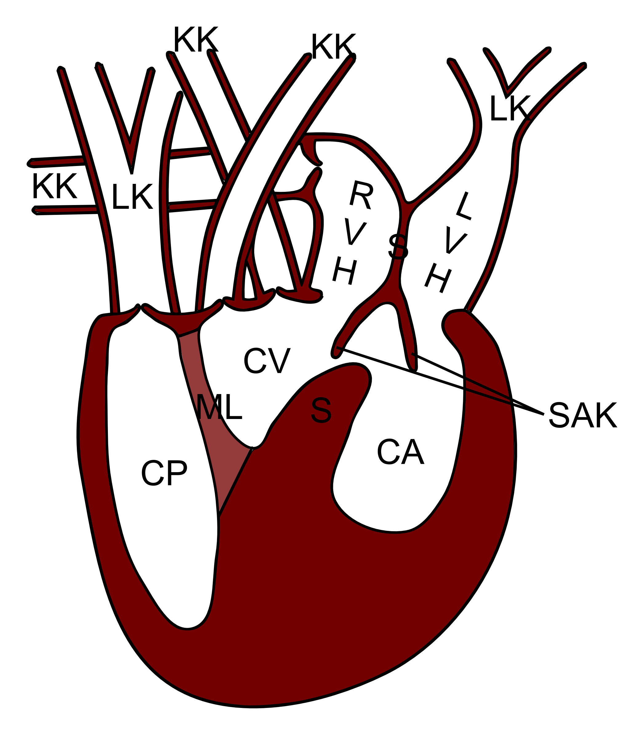 Varanus heart, scheme.